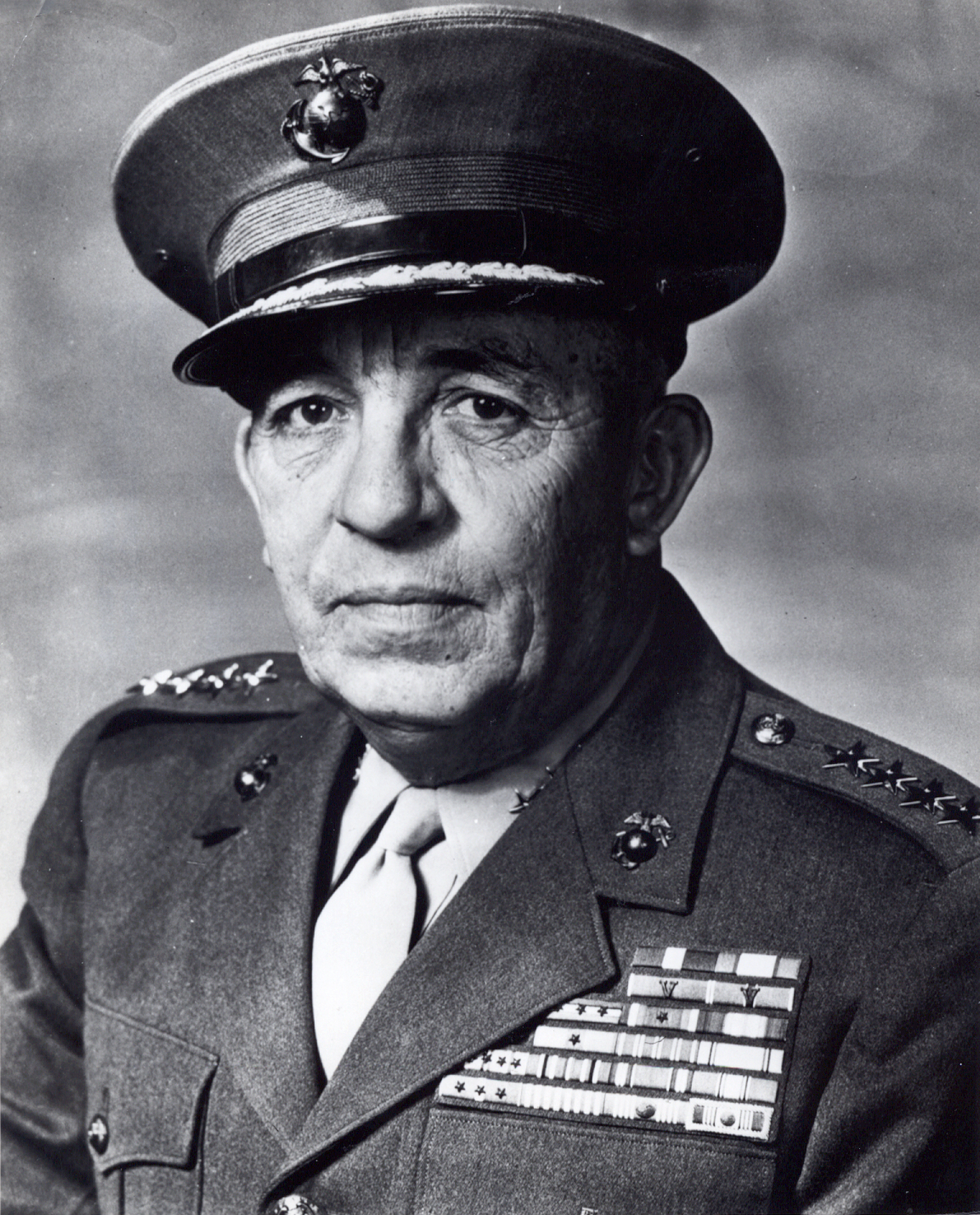 Edwin A. Pollock from [1]